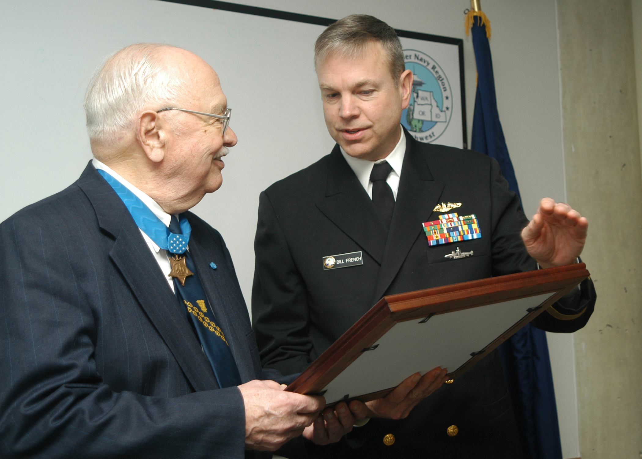 Silverdale, Wash. (Dec. 6, 2006) - Rear Adm. William French, commander of Navy Region Northwest, presents an autographed photograph to Medal of Honor recipient, retired Capt. Richard McCool, during a "Medal of Honor Flag" presentation ceremony at Naval Base Kitsap. McCool received his Medal of Honor in 1945 and was presented the flag that symbolizes the award for his heroic efforts in World War II. U.S. Navy photo by Mass Communication Specialist 1st Class Hodges Pone III (RELEASED)